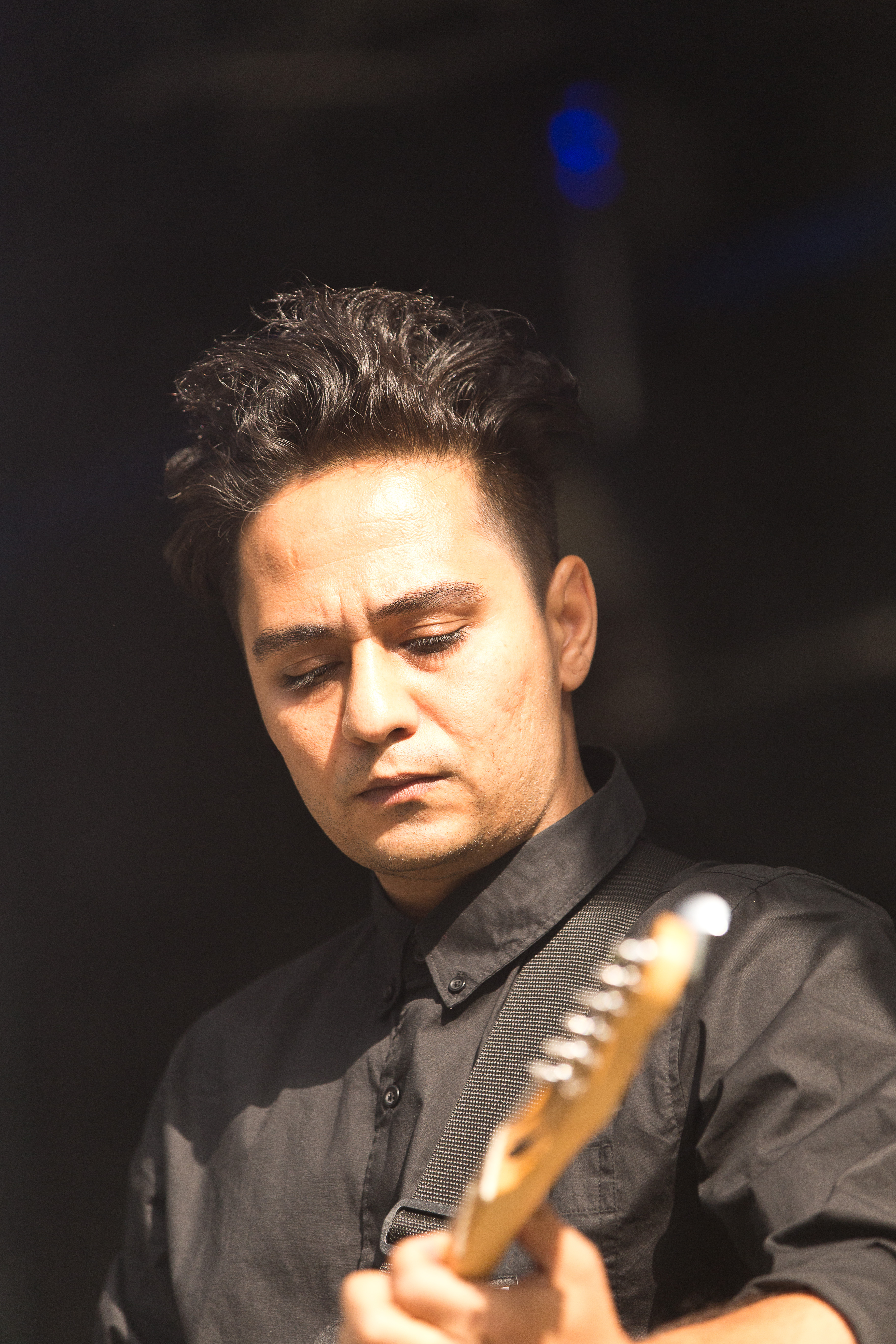 The Turkish goth wave band She Past Away at the Nocturnal Culture Night 10 2015 in Deutzen/Germany.